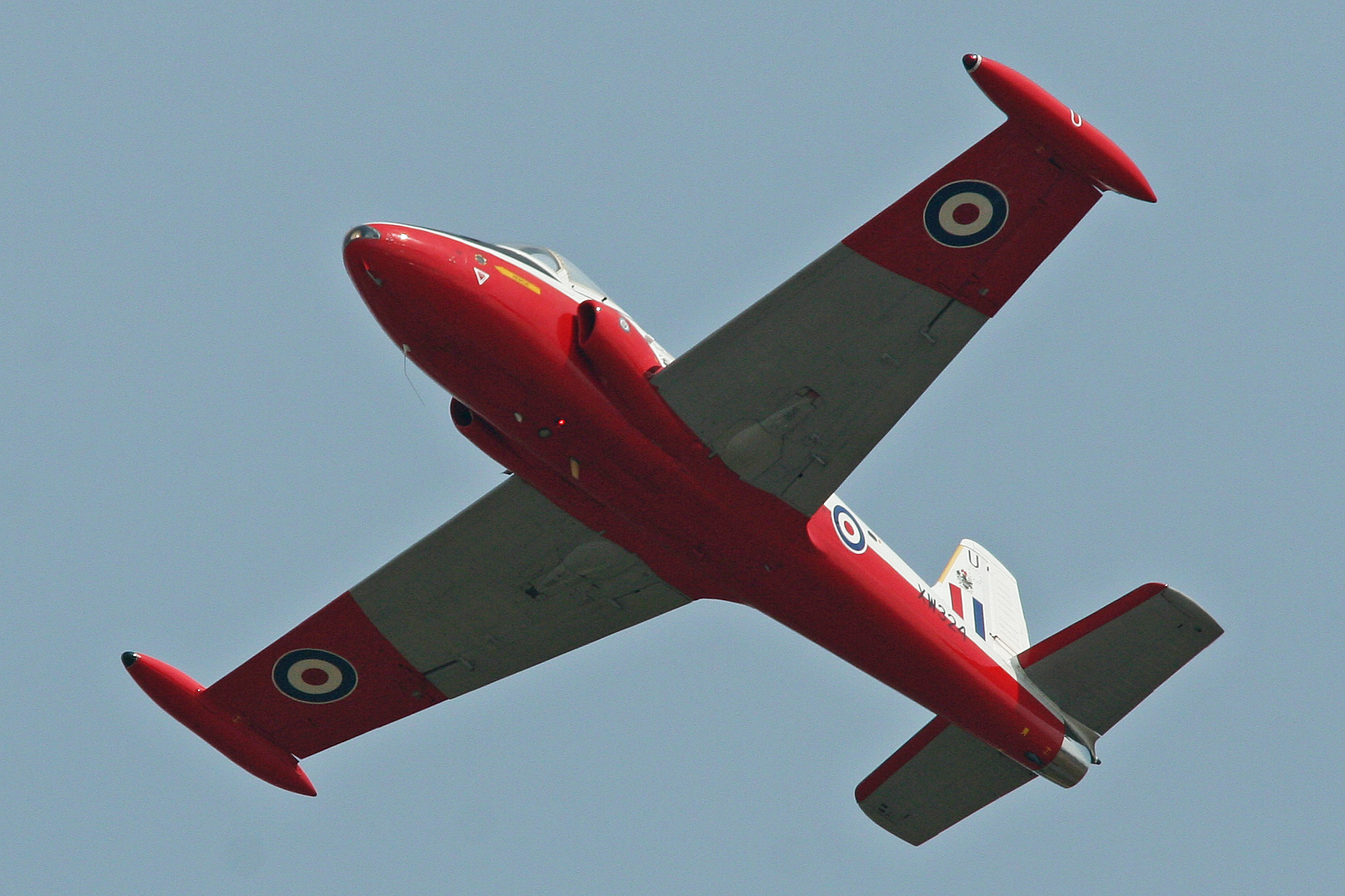 Privately operated in genuine RAF markings. c/n EEP/JP/988. Seen departing the 2013 RIAT at Fairford. 22-7-2013